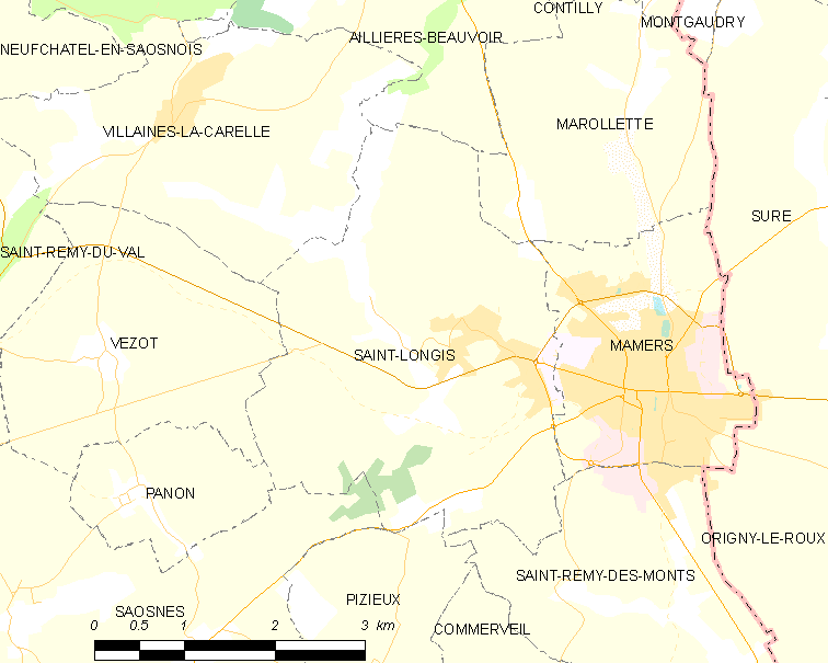 Map of French municipality